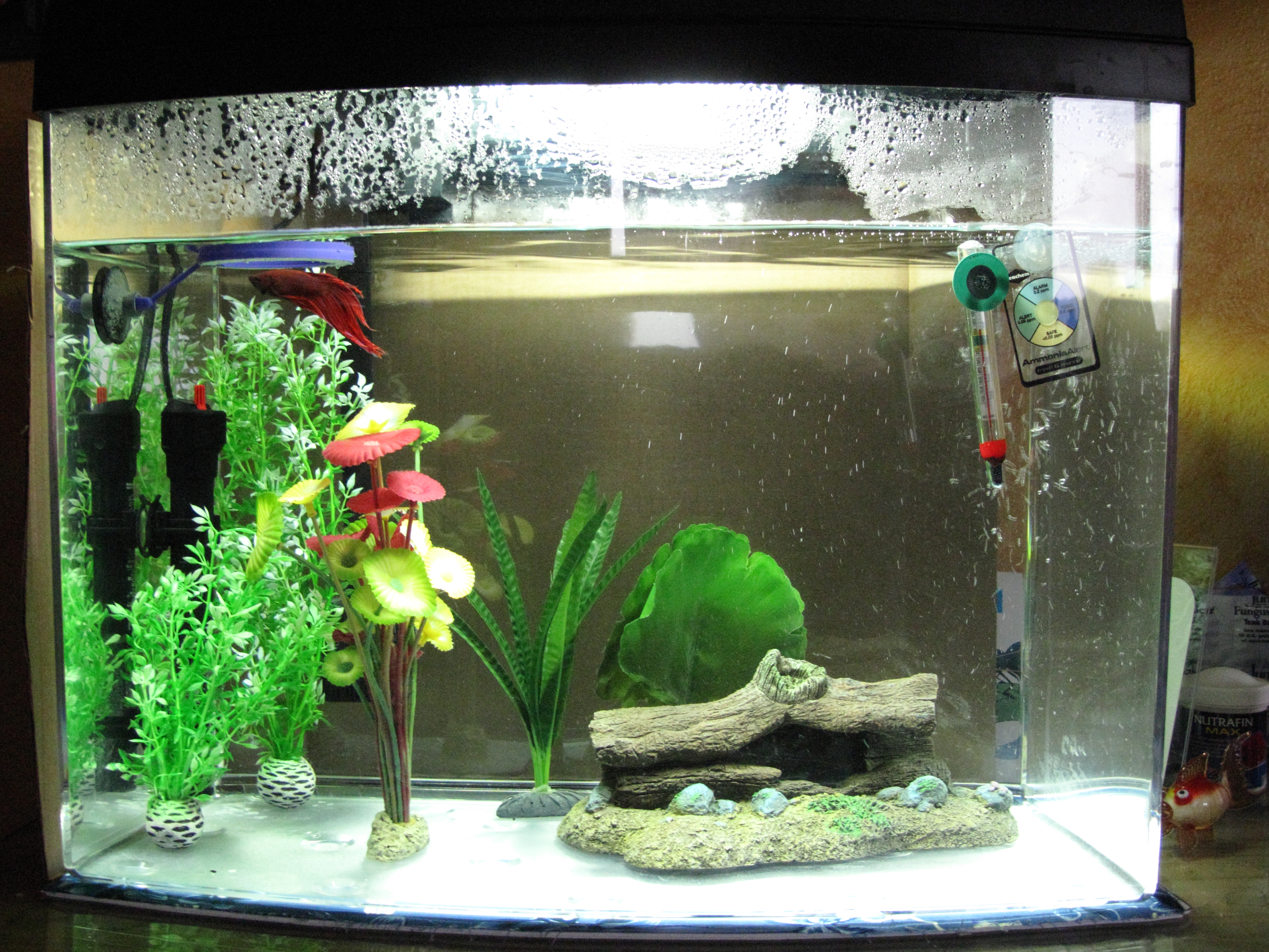 Bare tank. No gravel aquarium.